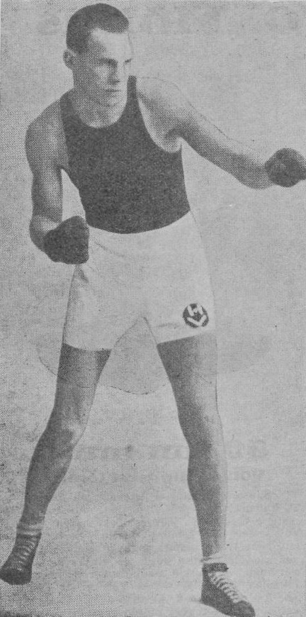 Finnish boxer Hannes Hakkarainen (1910-1931) in 1929.